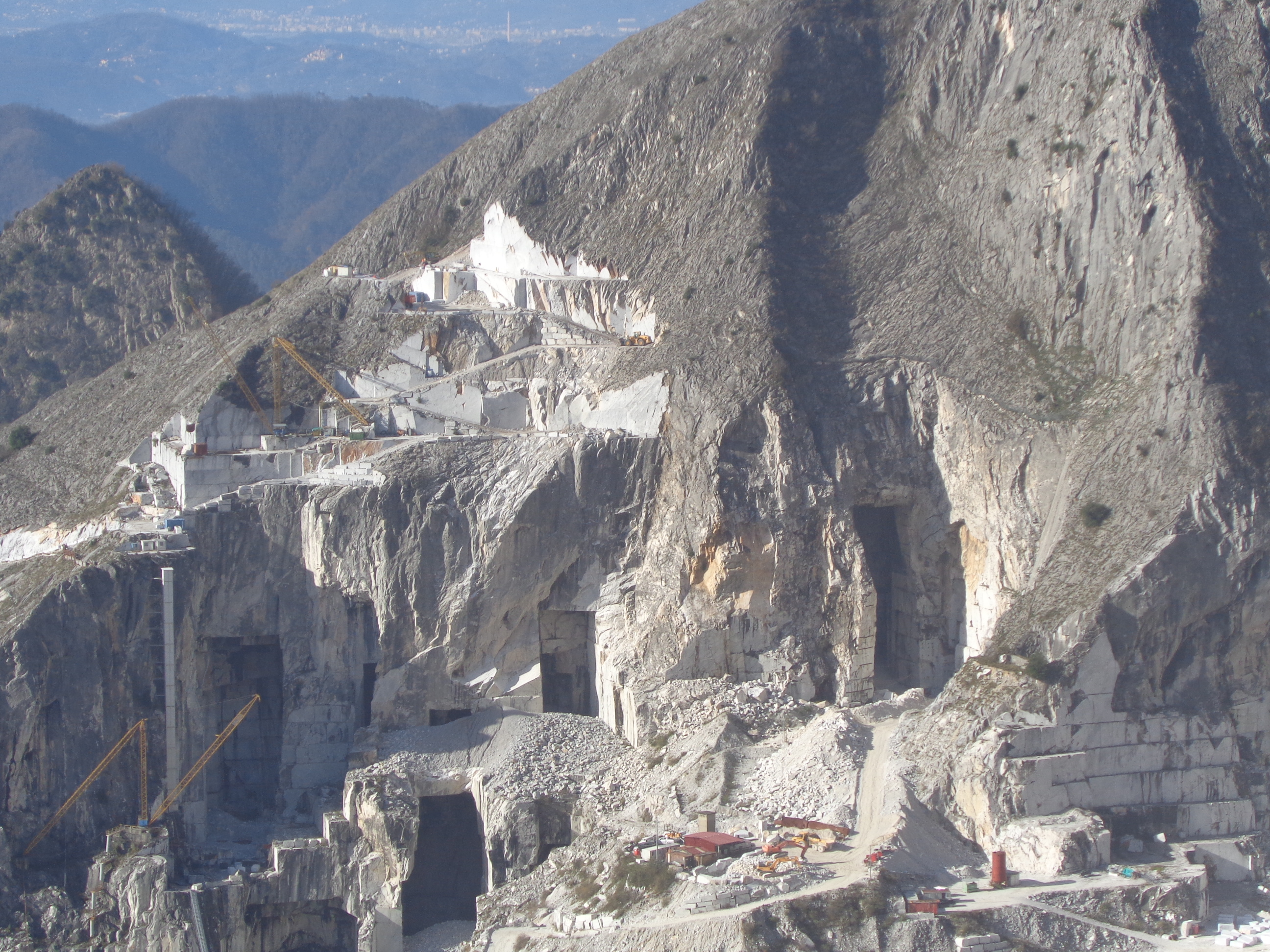 Carrara marble quarries